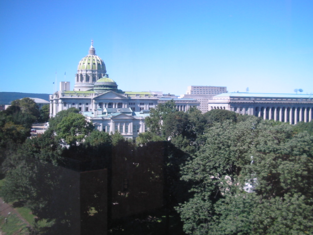 PA Capitol Complex